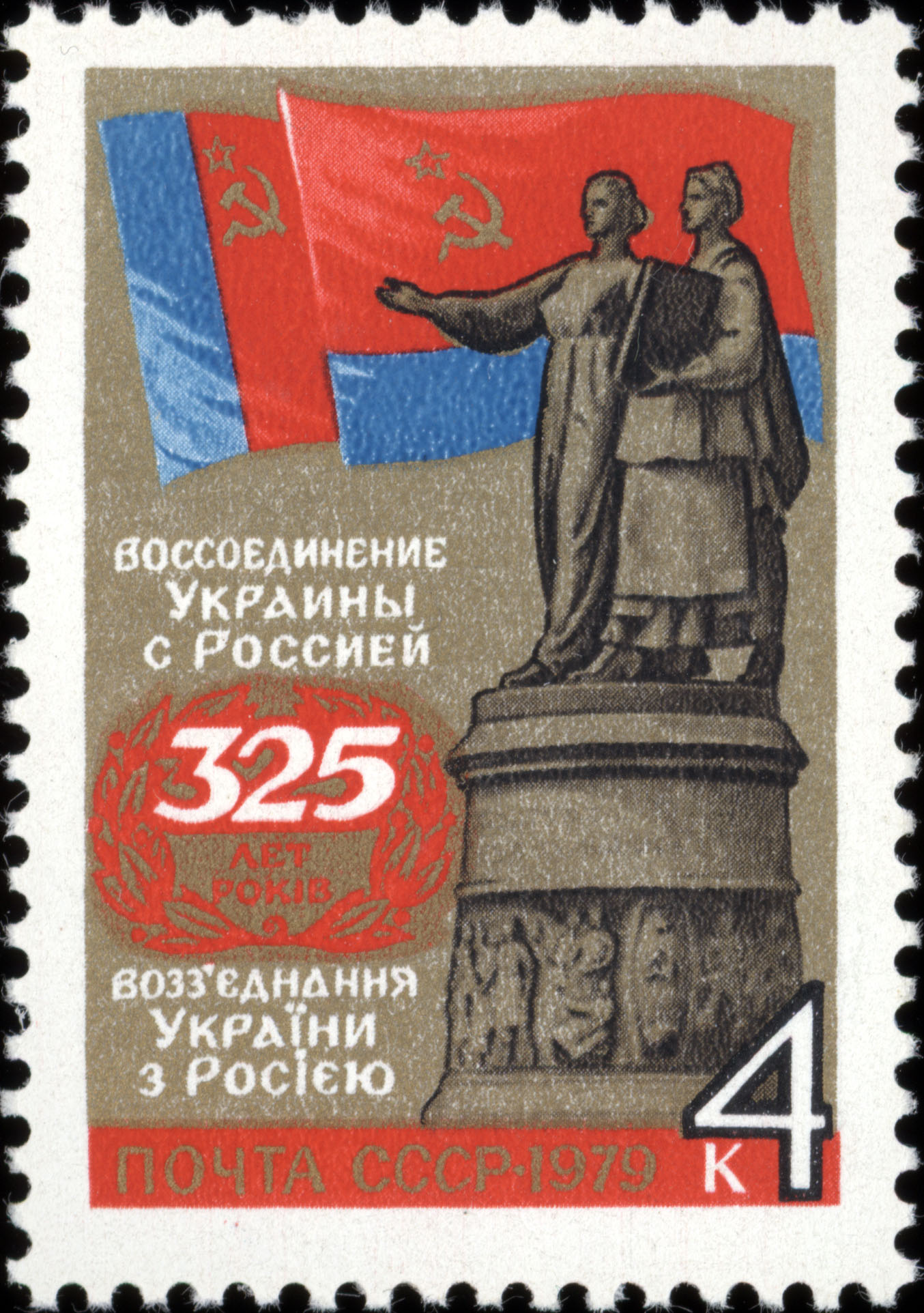 USSR stamp dedicated to 325th anniversary of Russian-Ukrainion reunion